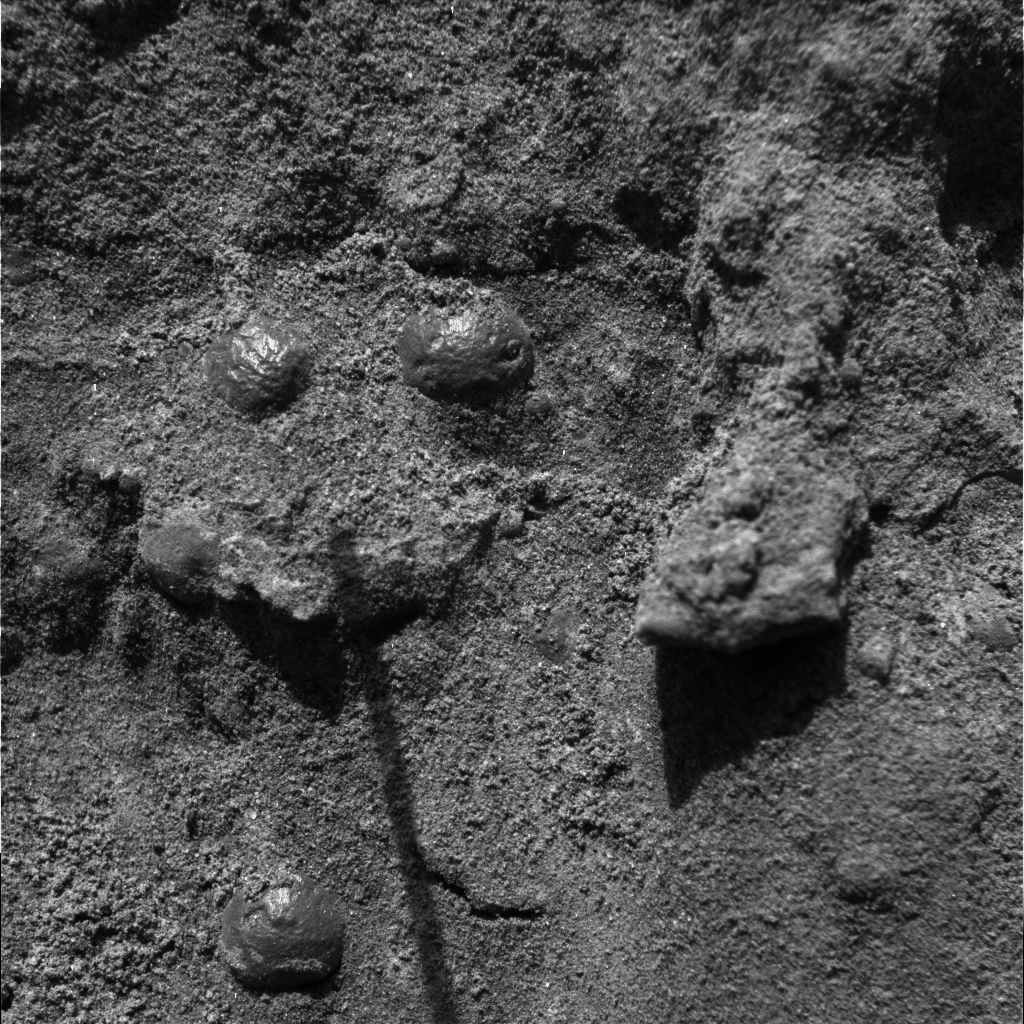 This image, taken by the microscopic imager, an instrument located on the Mars Exploration Rover Opportunity 's instrument deployment device, or "arm," reveals shiny, spherical objects embedded within the trench wall at Meridiani Planum, Mars. Scientists are highly intrigued by these objects and may further investigate them. The area in this image measures approximately 3 centimeters (1.2 inches) across. Microscopic Imager Non-linearized Full frame EDR acquired on Sol 25 of Opportunity's mission to Meridiani Planum at approximately at approximately 11:58:50 Mars local solar time, Microscopic Imager dust cover commanded to be OPEN.